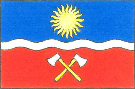 Municipal flag of Čím , District Příbram, Czech Republic